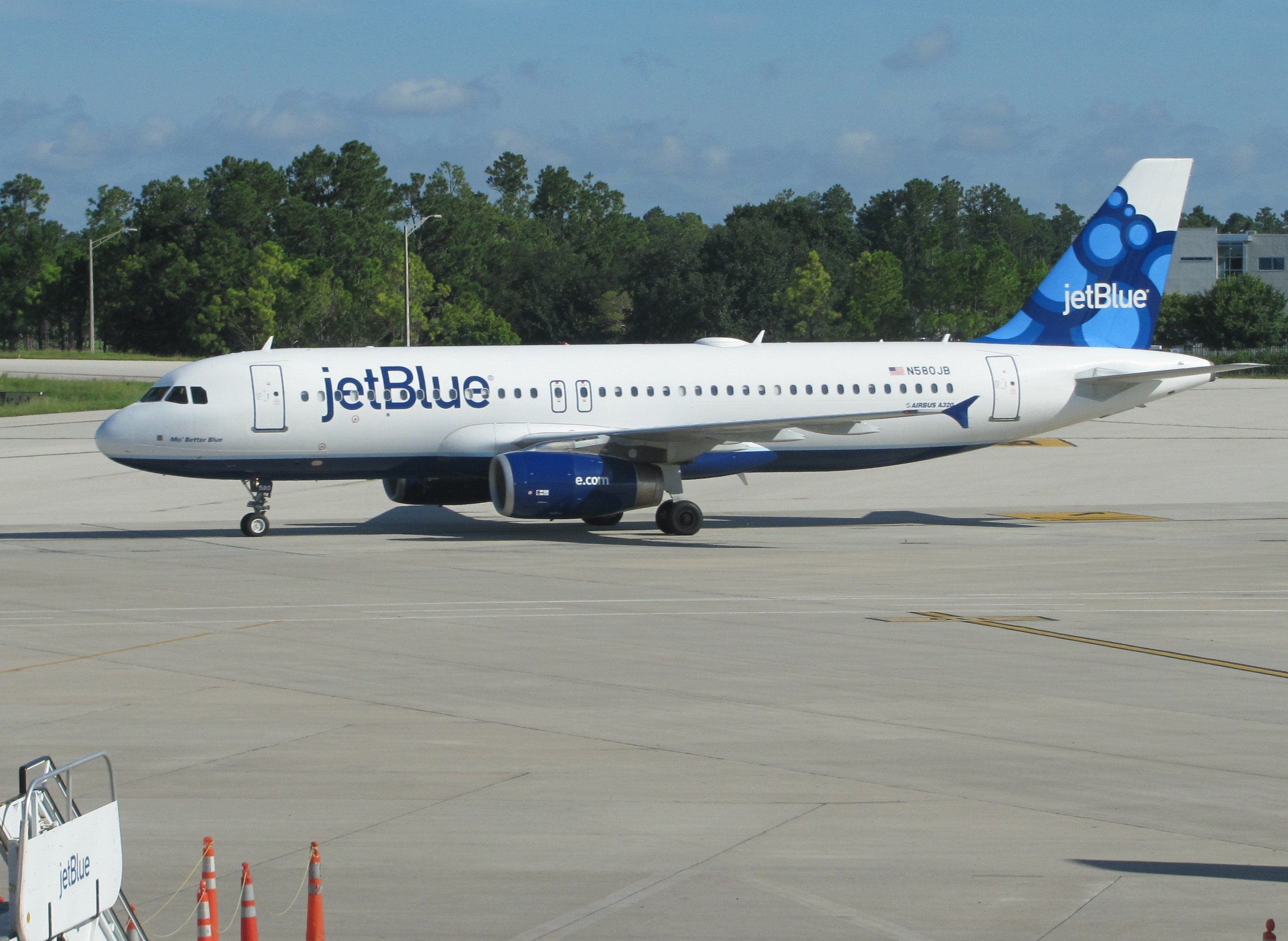 Airbus A320 JetBLue Airways at Orlando.